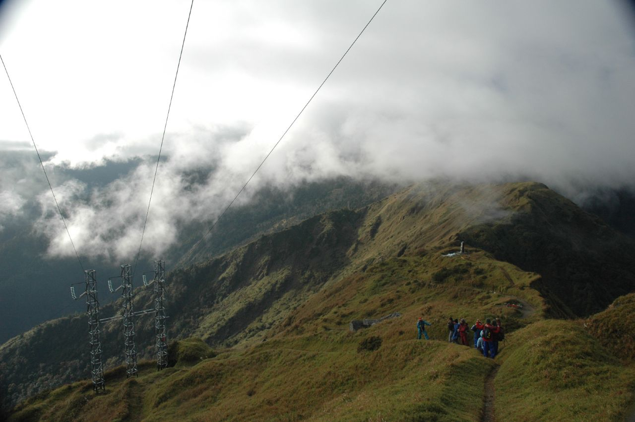 Looking down the ridge to Nenggao Saddle.